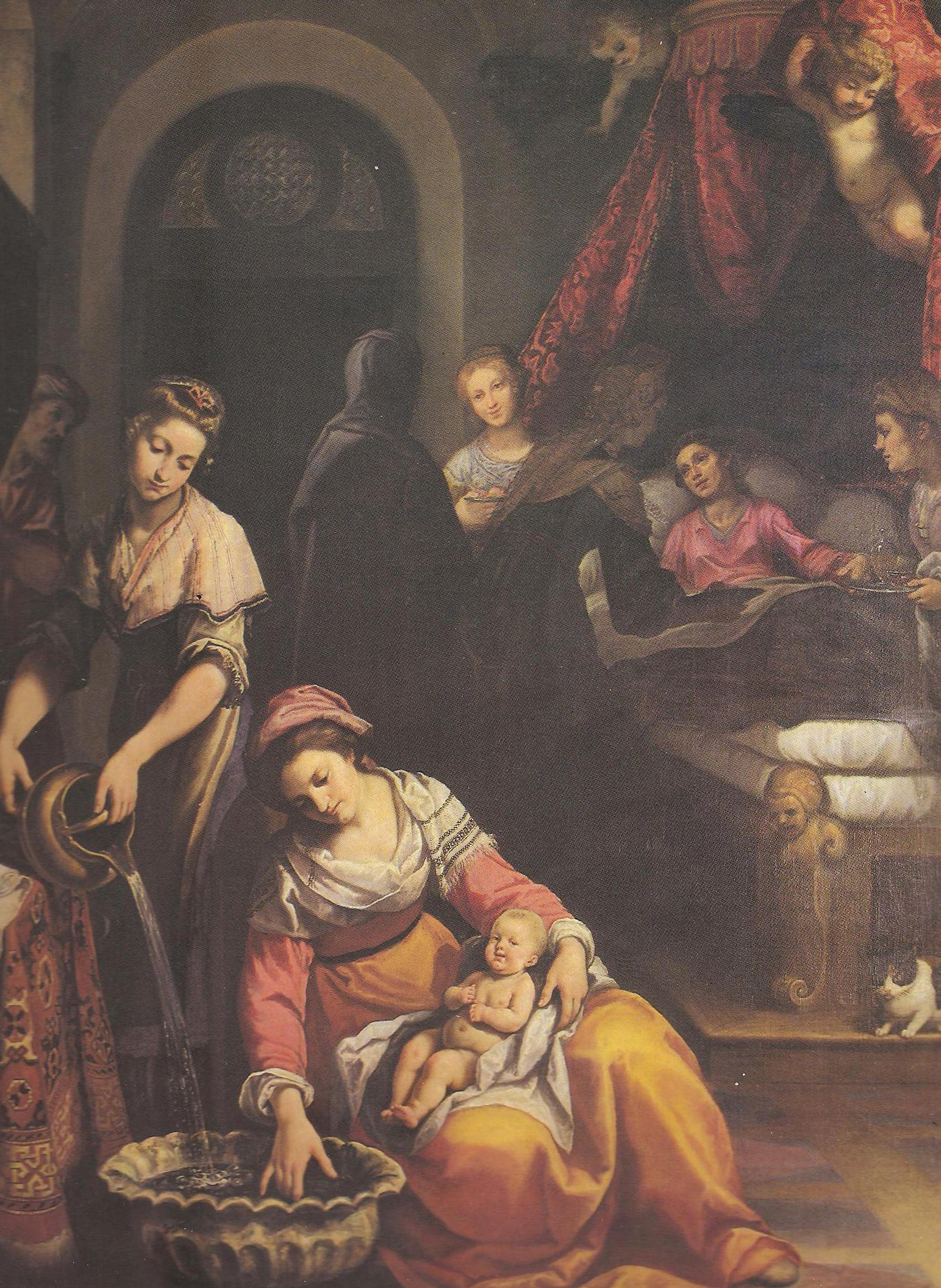 Opere del Cigoli